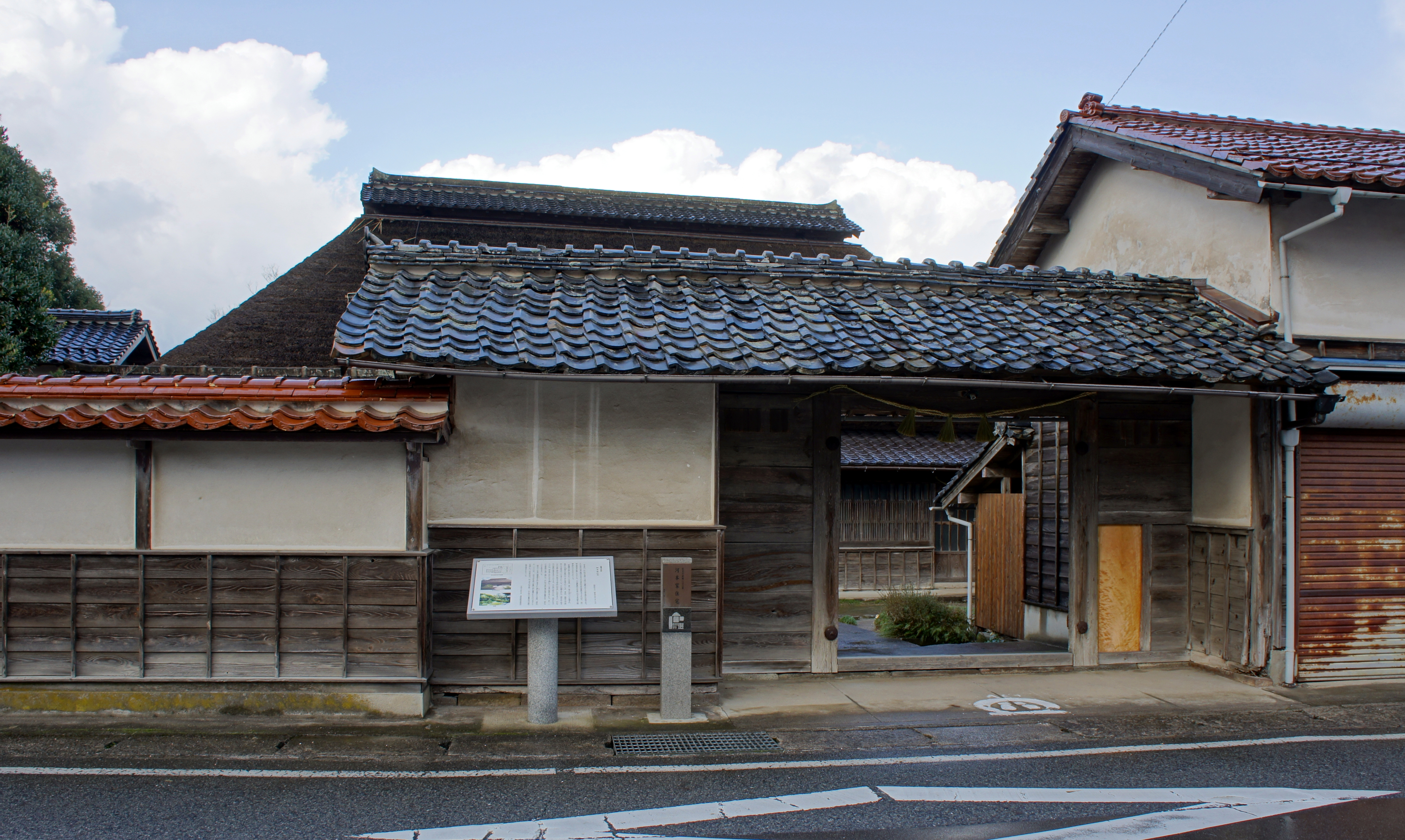 Kawamoto Residence main gate (Kotoura, Tottori Prefecture, Japan)